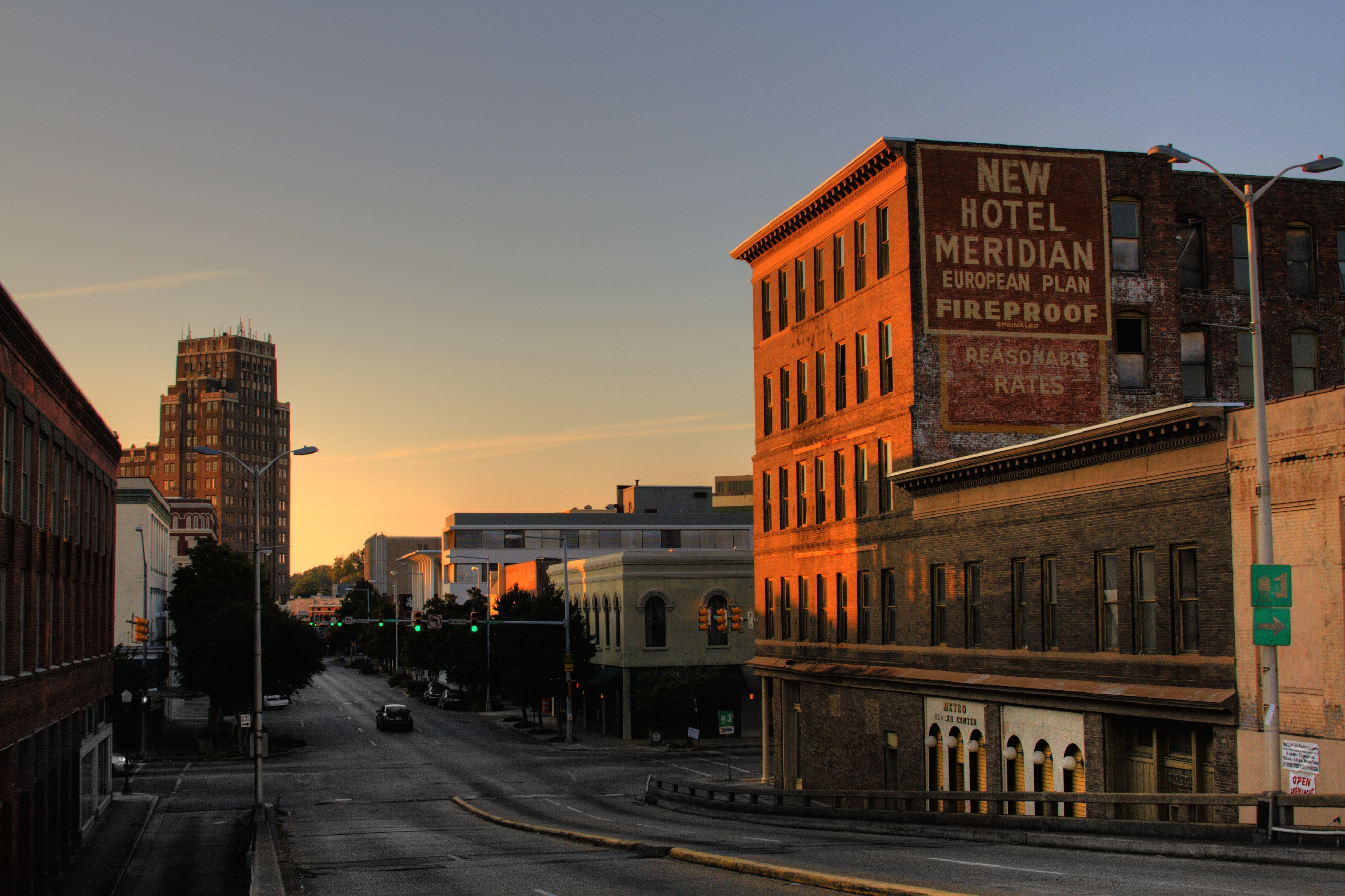 A picture of Meridian Downtown taken from atop the 22nd Ave Bridge